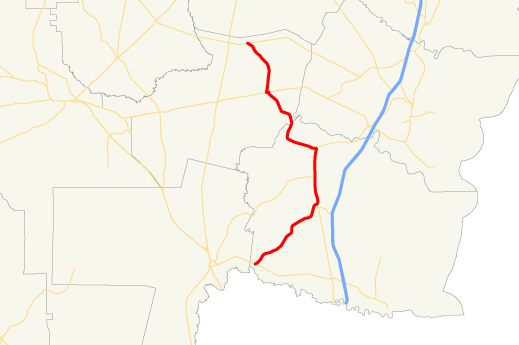 Map of Georgia State Route 110